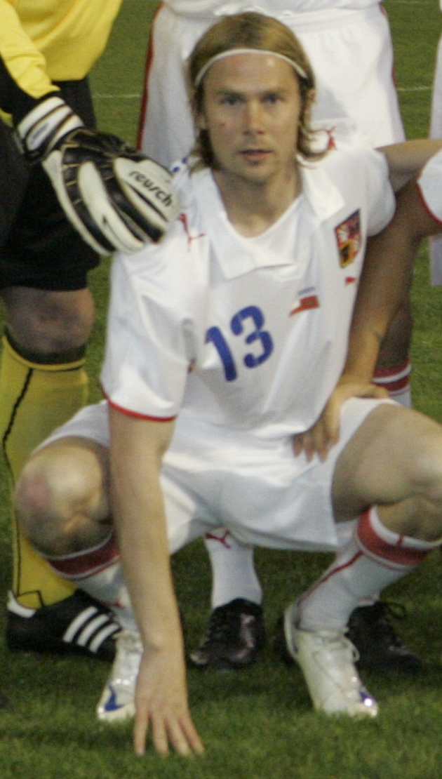 Jaroslav Plašil (Czech Republic) before the friendly match against Morocco on February 11, 2009